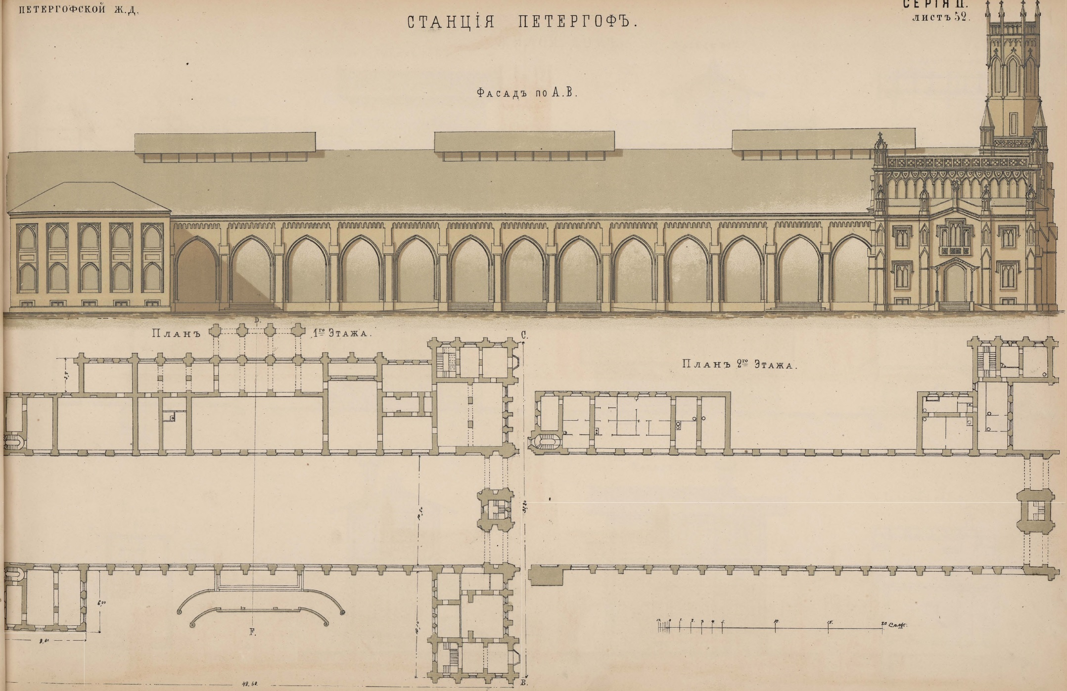 Peterhof station. Peterhof Railway. Russian Empire